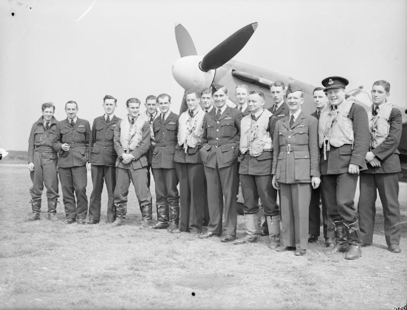 Royal Air Force Fighter Command, 1939-1945. Pilots of No 452 Squadron RAAF, standing in front of a Supermarine Spitfire Mark IIA at Kirton-in-Lindsey, Lincolnshire. This unit was the first Australian squadron to be formed in Fighter Command.